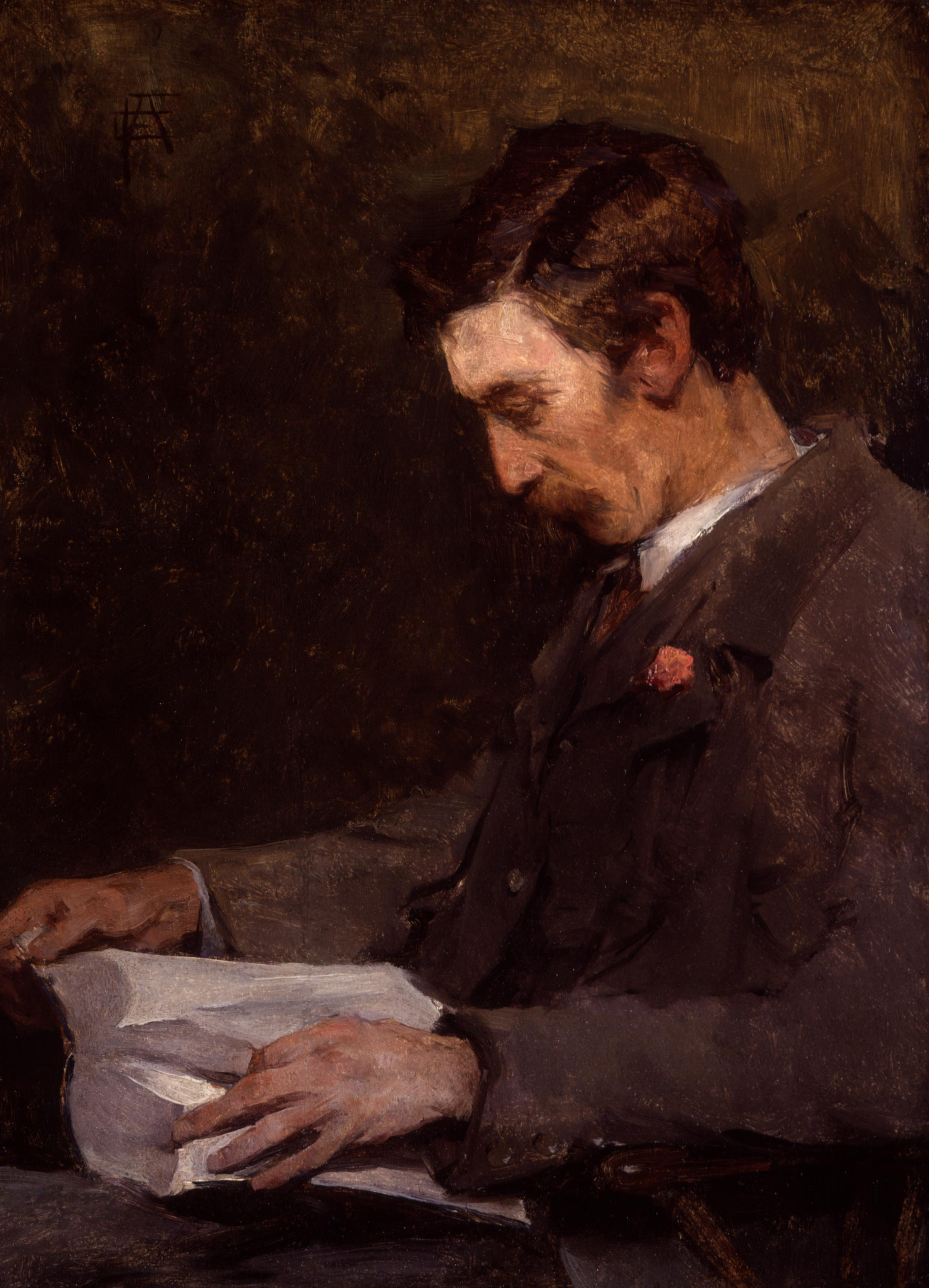 All images in this batch have been confirmed as author died before 1939 according to the official death date listed by the NPG.